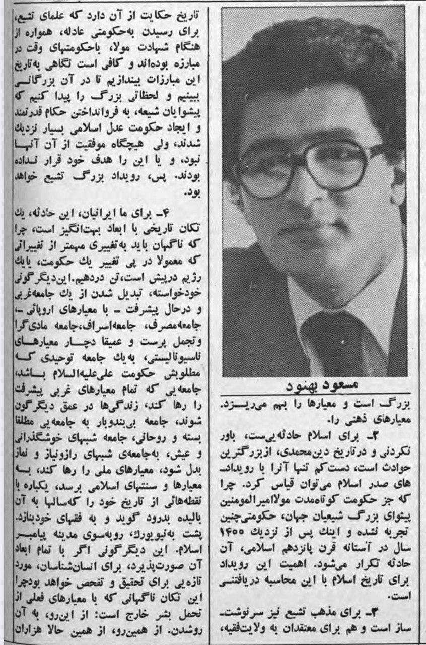 متن مسعود بهنود سردبیر تهران مصور پس از همه‌پرسی نظام جمهوری اسلامی در ایران